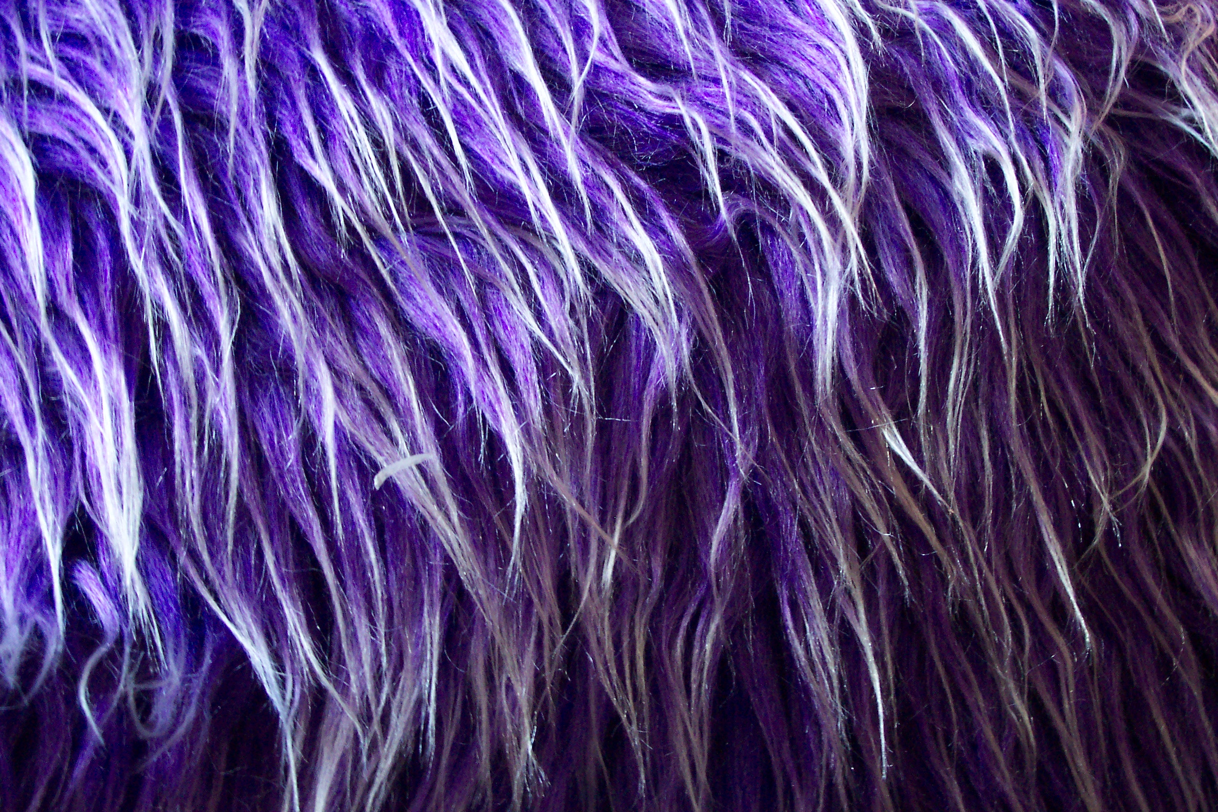 Textured